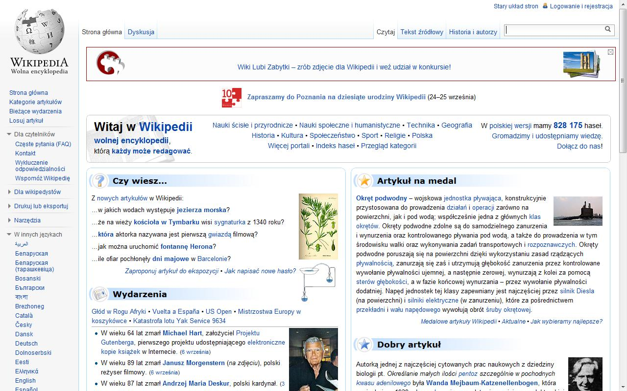 History of Polish Wikipedia Main Pages (screenshot from 2011)